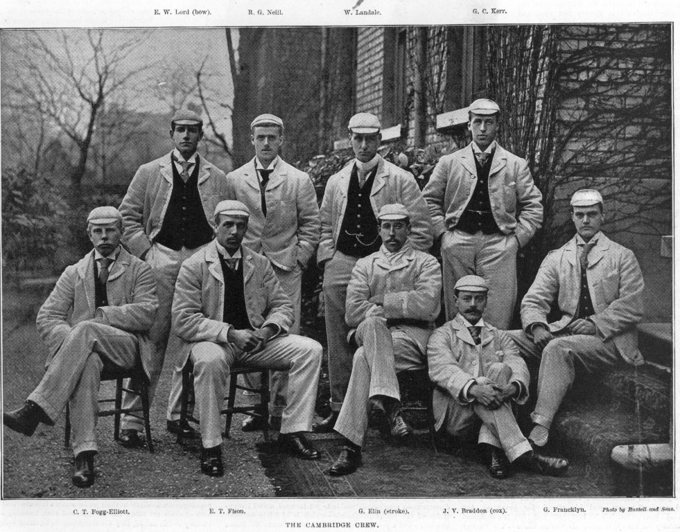 Cambridge University Boat Club VIII - B&W photo - The Illustrated London News - April 9, 1892